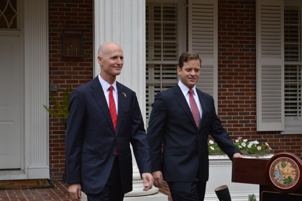 Accompanying note: "Gov. Rick Scott escorts newly appointed Lt. Gov. Carlos Lopez-Cantera from the governor's mansion Feb. 3, 2014, for a news conference following his swear-in during a private ceremony at the governor's office in the Florida Capitol earlier in the day. Lopez-Cantera succeeded Lt. Gov. Jennifer Carroll, who resigned in March of 2013."